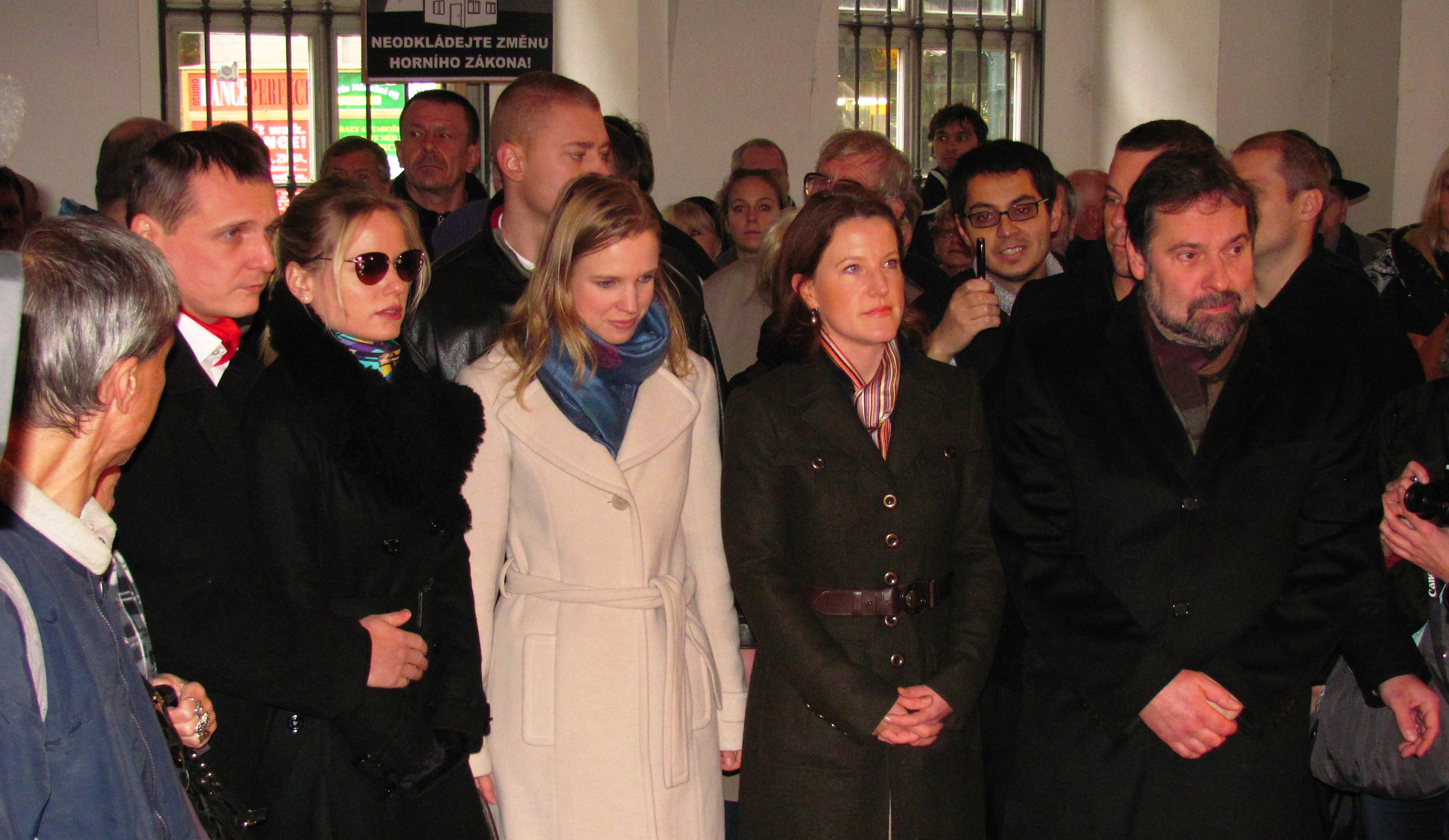 Vít Bárta and top members of the Věci veřejné, political party